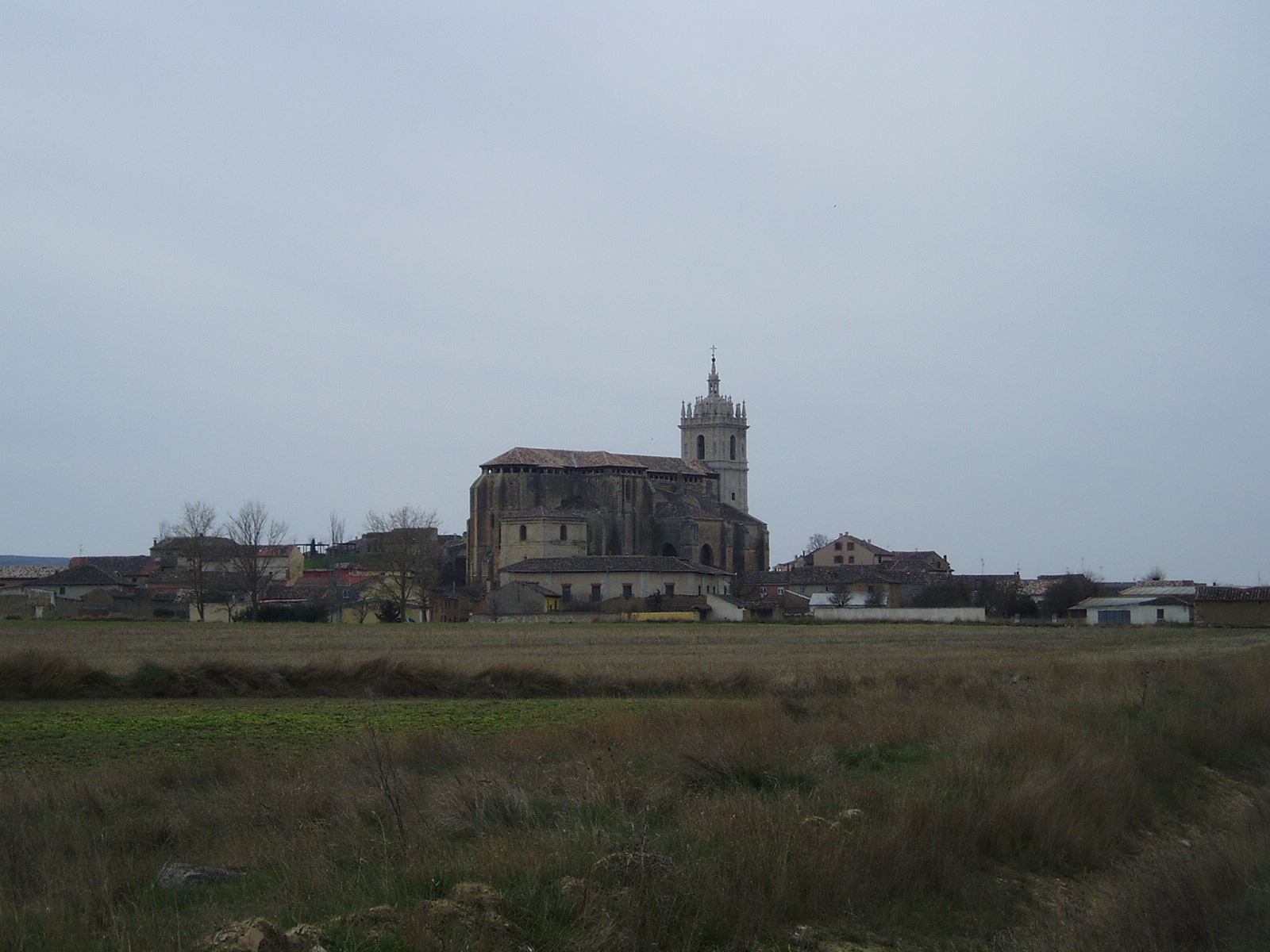 View of the village of Támara de Campos, in Palencia.